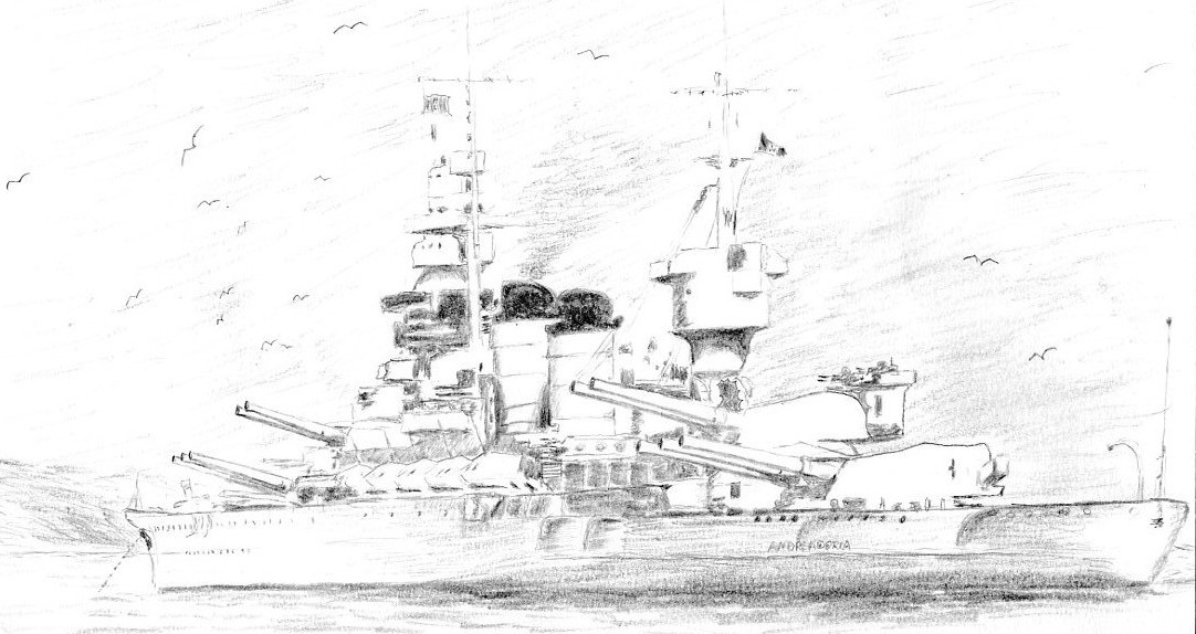 Italian battleship Andrea Doria of WWII. Scanned drawing.